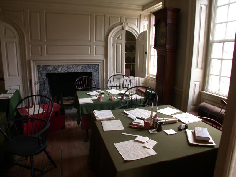 The Aides-de-Camp office inside General Washington's Headquarters at Valley Forge. General Washington's staff officers worked in this room writing and copying the letters and orders of the continental army.